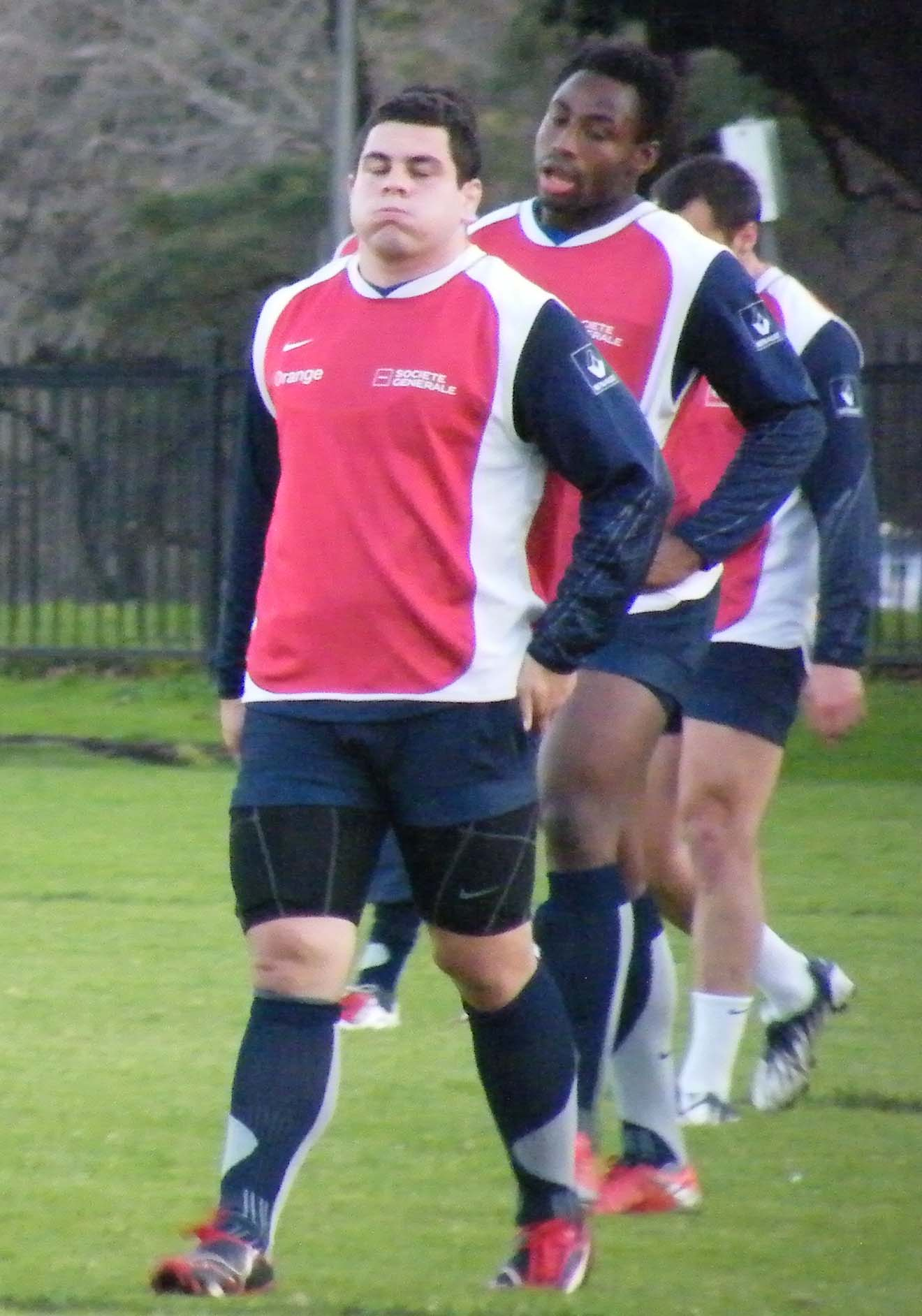 Guilhem Guirado - French Rugby Union Training - Moore Park, Sydney 23 June 2009.